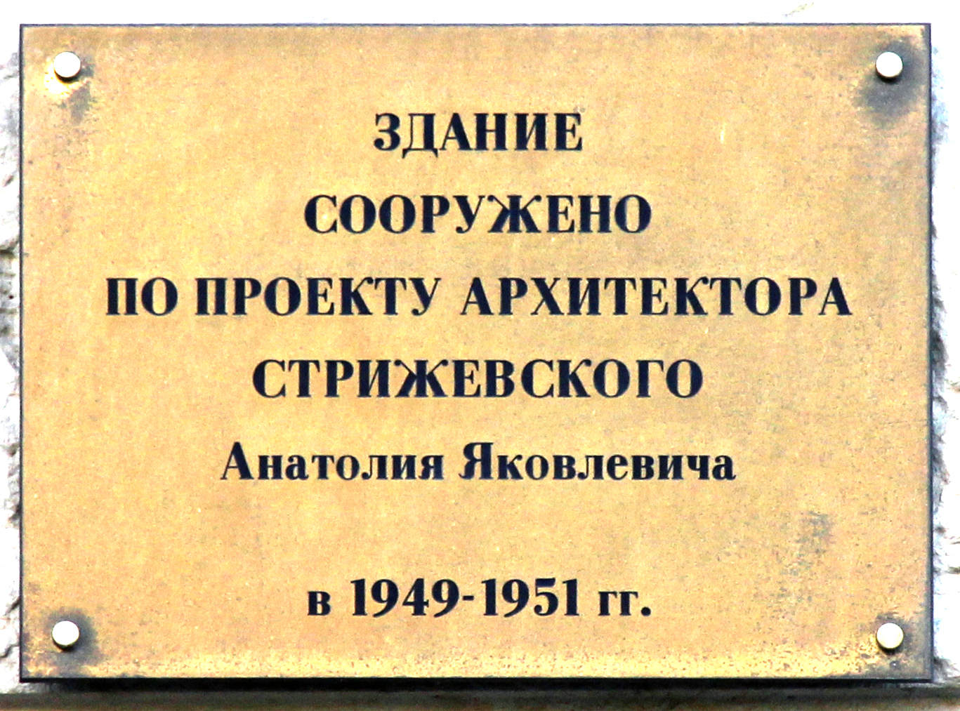 Memorial plaque, Russische Botschaft, Unter den Linden 61, Berlin-Mitte, Deutschland